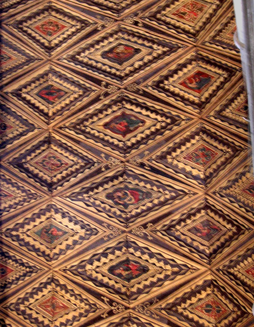 Peterborough Cathedral, the decoration of the ceiling dates from about 1220